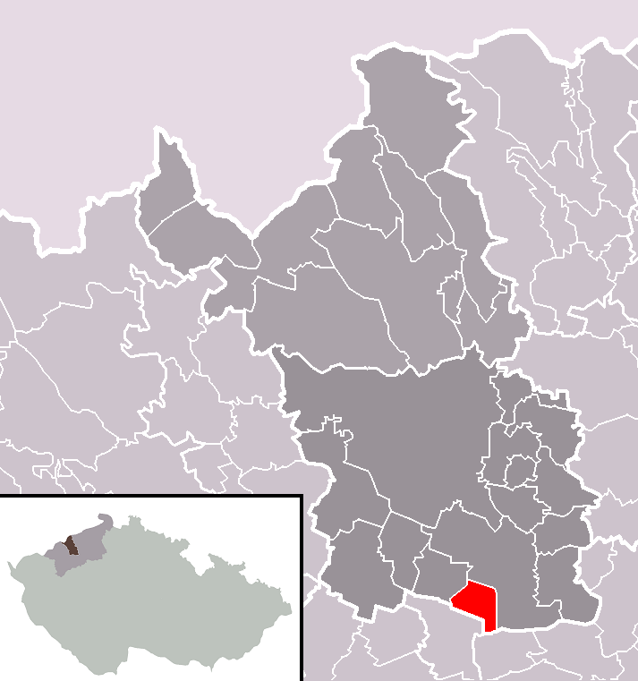 Location of Volevčice municipality within Most District and administrative area of Most as a Municipality with Extended Competence.